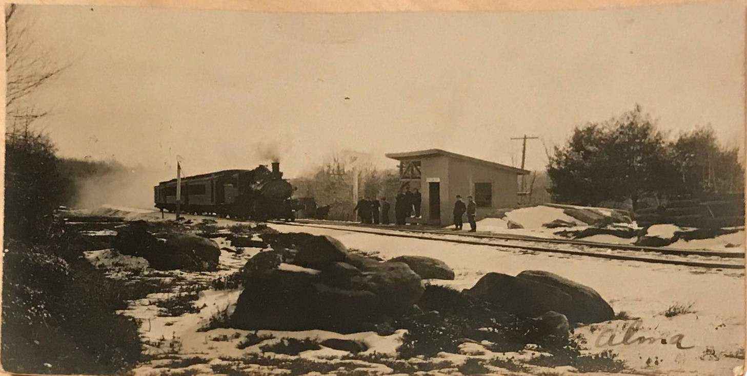 1909 divided back postcard of Wallum Lake station in Pascoag, Rhode Island